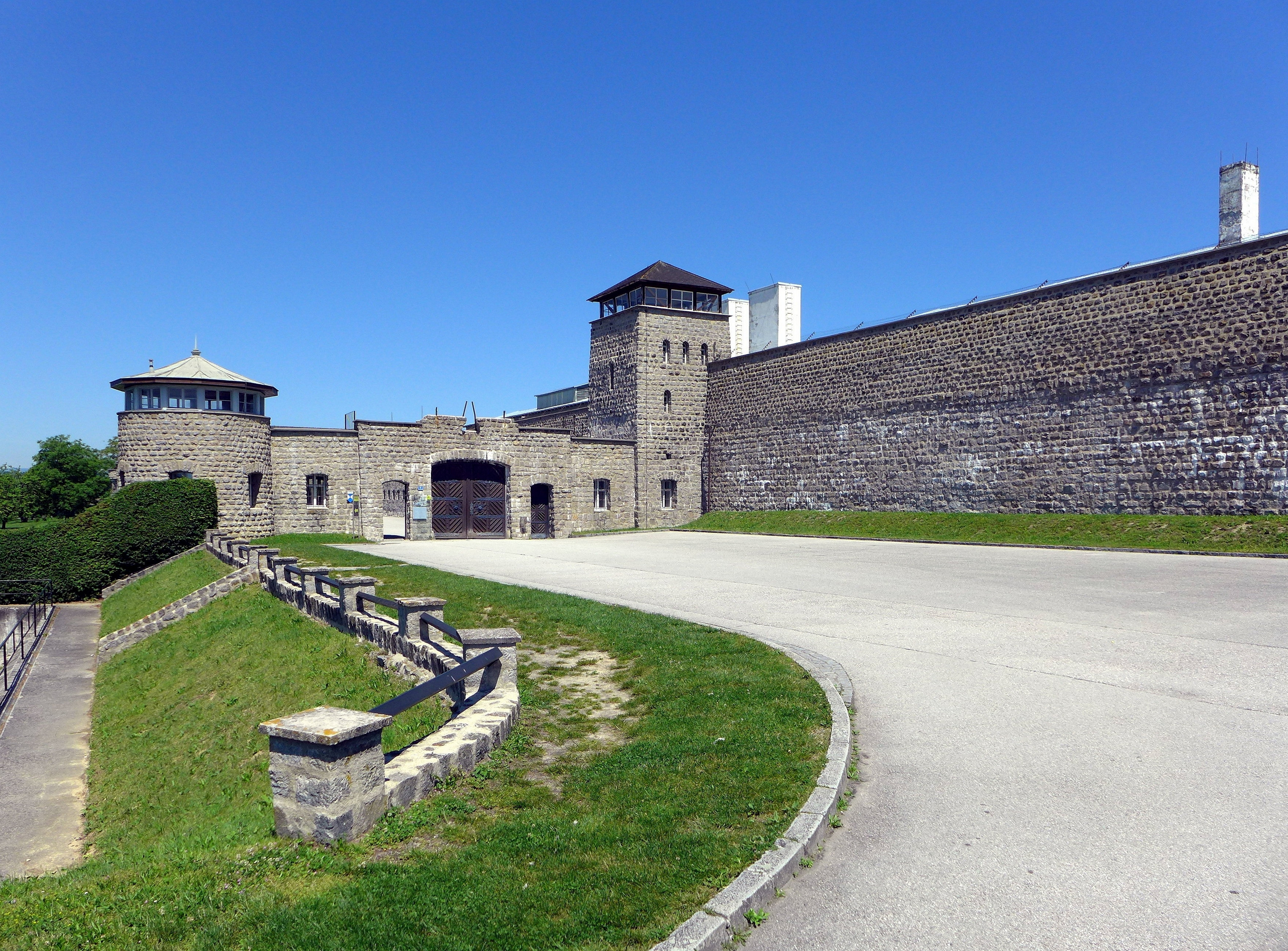 Entrance doorway, KZ Mauthausen memorial, Mauthausen, Upper Austria, Austria